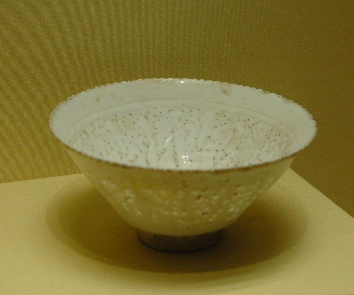 Cup with indented rims. Iran, 12th century. Composite body, pierced and engraved, transparent glaze, underglaze painted.